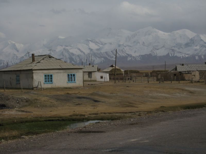 A view of Sary Tash village, in Kyrgyzstan. Behind the houses it's possible to see the Pamir Mountains